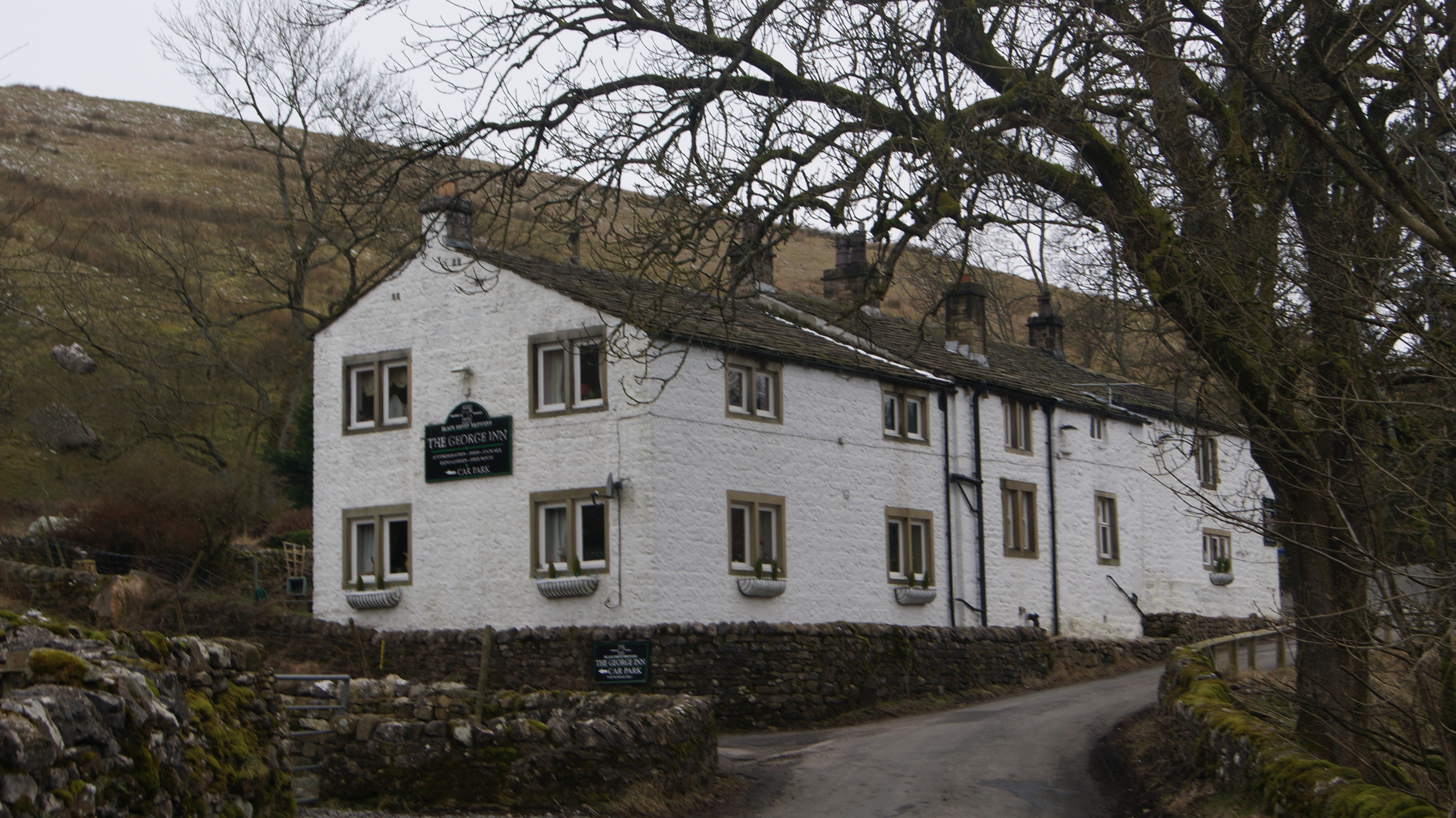 The George Inn, Hubberholme, North Yorkshire. Taken Midday, Tuesday the 12th of February 2013.